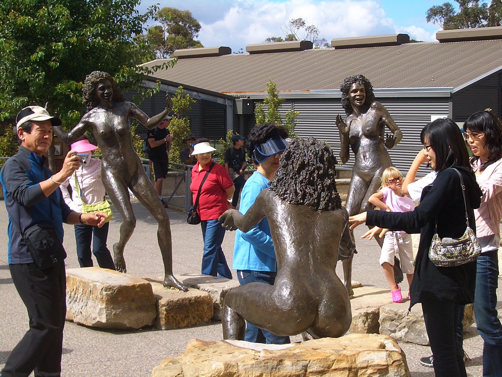 Tourists congregate around the Three Sisters sculpture group outisde of the Scenic World entrance in Katoomba, NSW